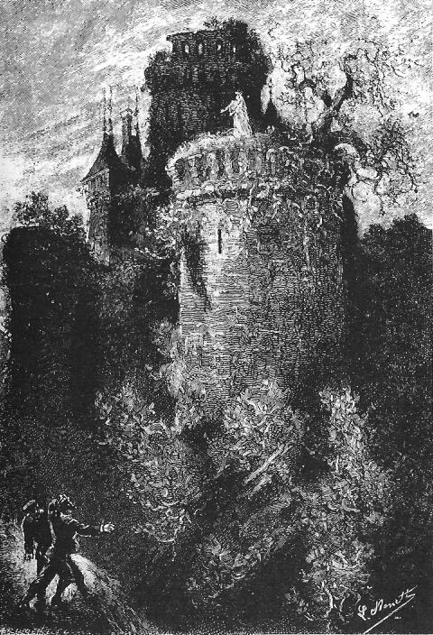 An illustration from Jules Verne's novel "The Carpathian Castle" (also published as "The Castle of the Carpathians", "The Castle in Transylvania", and "Rodolphe de Gortz; or the Castle of the Carpathians").